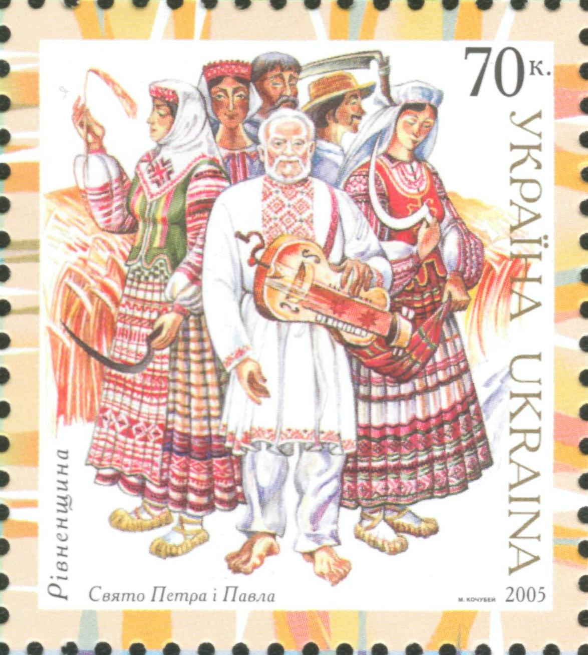 Stamp page (6 stamps) with Ukrainian traditional clothing